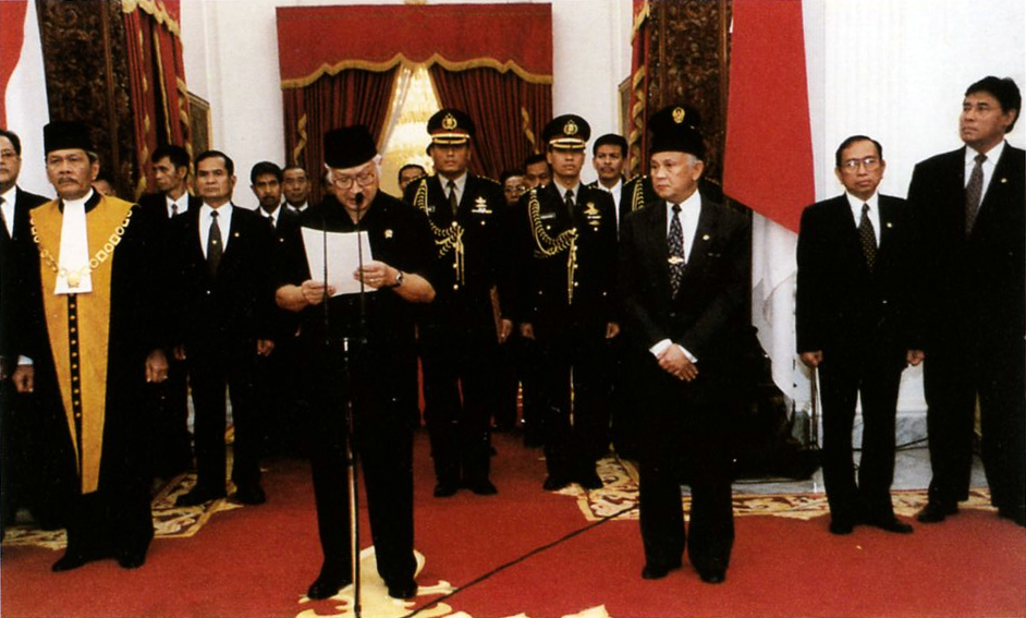 Mr. Suharto presented his address of resignation as President of the Republic of Indonesia at Merdeka Palace Jakarta, 21 May 1998. (original caption)